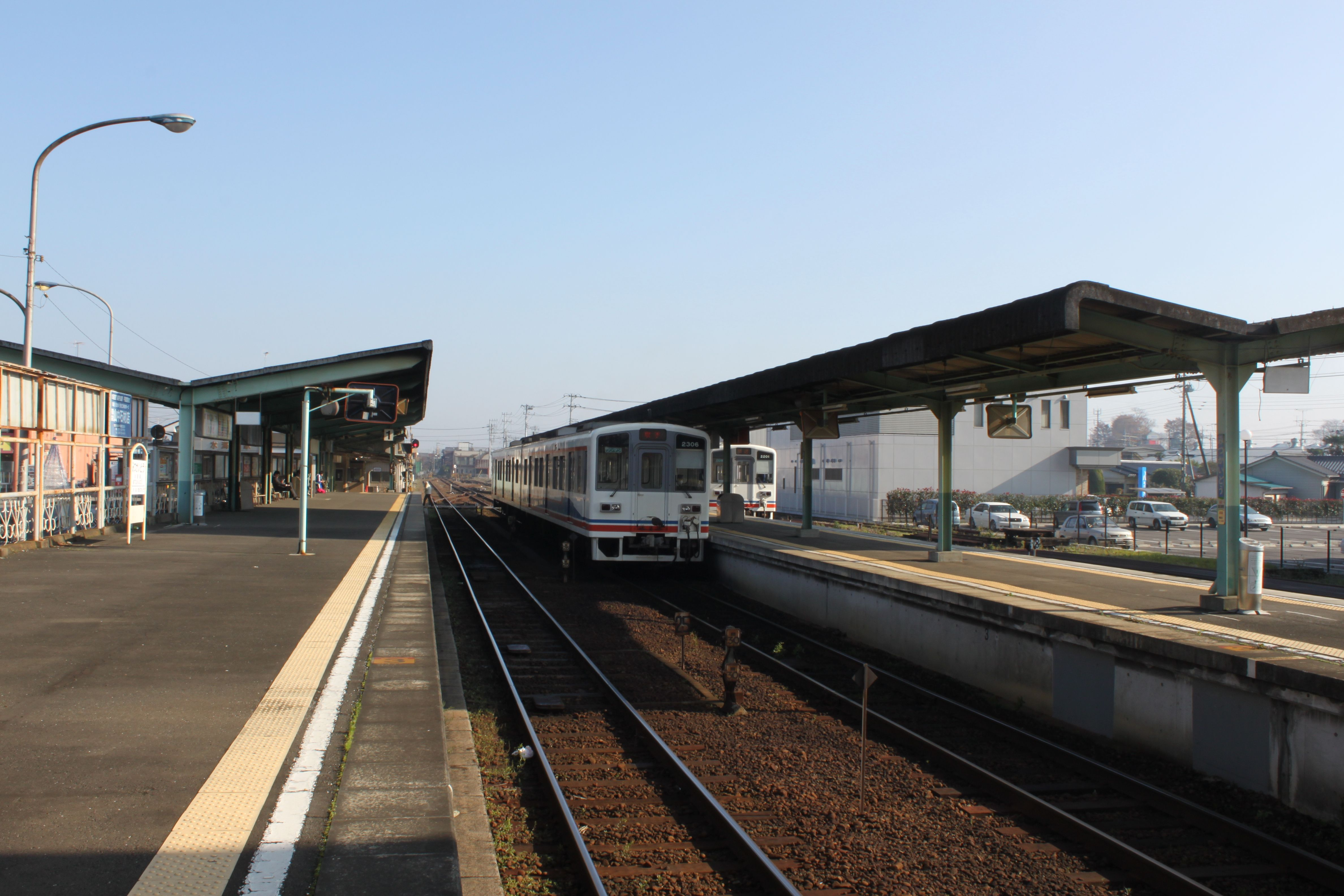 Kanto Railway 2300 series (left) and 2200 series (right) diesel multiple unit trains at Mitsukaido Station